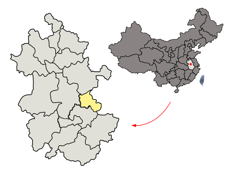 Location of Ma'anshan Prefecture (yellow) within Anhui Province of China Map drawn in december 2007 using various sources, mainly : Anhui Province administrative regions GIS data: 1:1M, County level, 1990 Anhui Counties map from